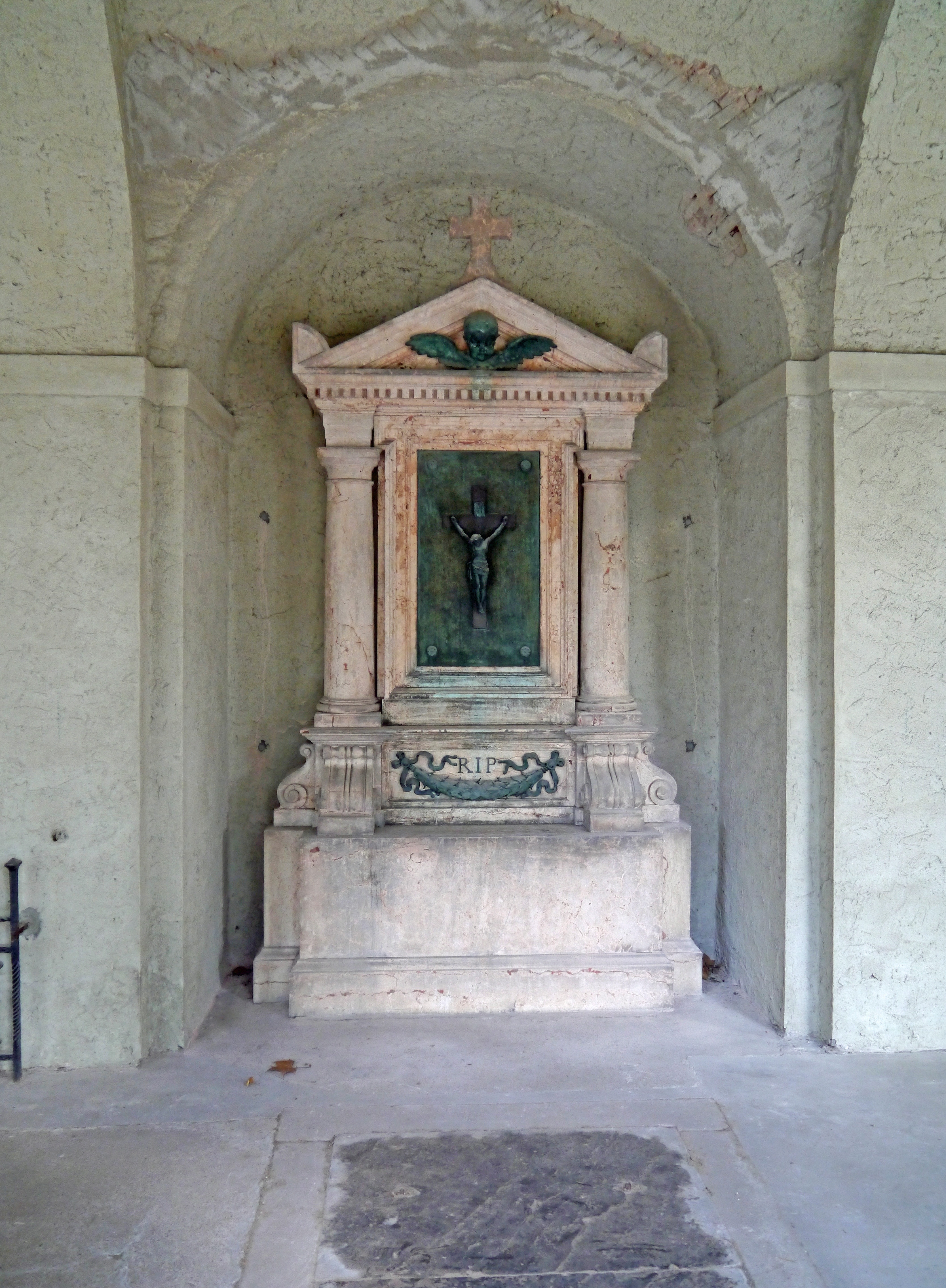 Burial vault (nr. 24), of family Mylius and Moeller, at "Hauptfriedhof" in Frankfurt am Main, Germany.